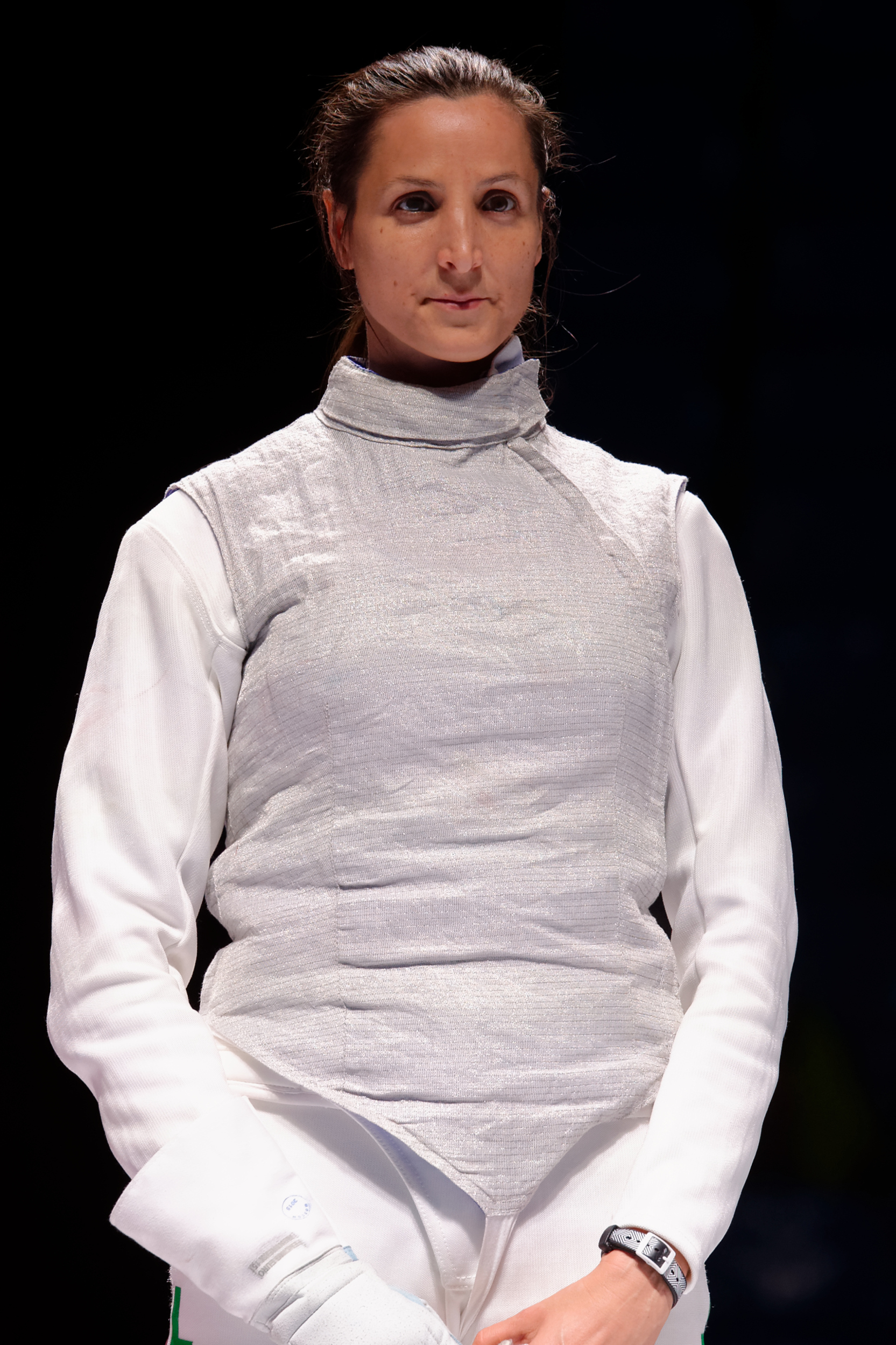 Hungary's Gabriella Varga at the final for the 3rd place in women's team foil at the 2015 World Fencing Championships on 19 July 2014 at the Olympic Stadium in Moscow.